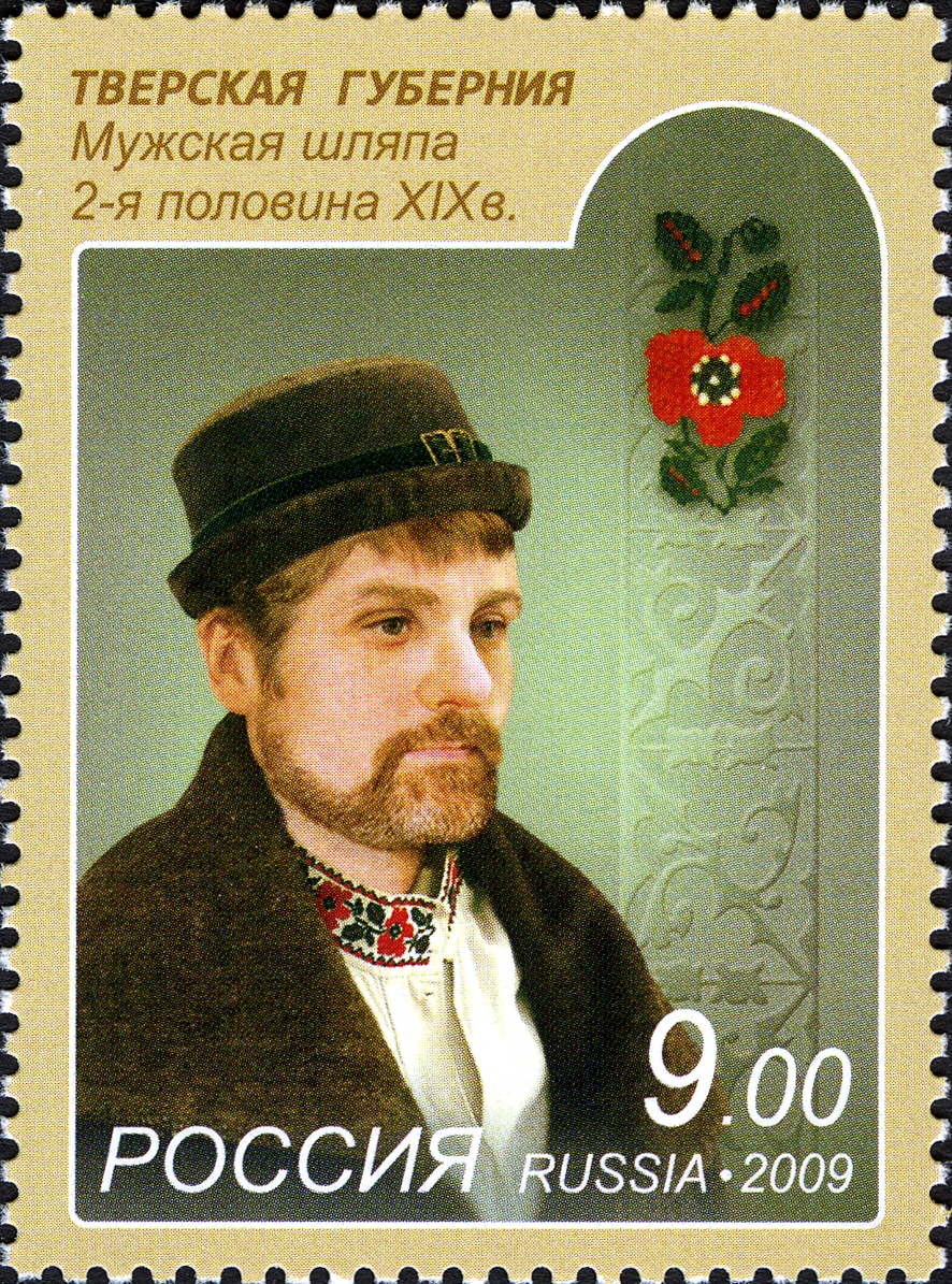 Culture of Russian People - National Head dress - Latter half of XIX Century, Men's Hat, Tver' Province. Postage stamp of Russia. 9 roubles